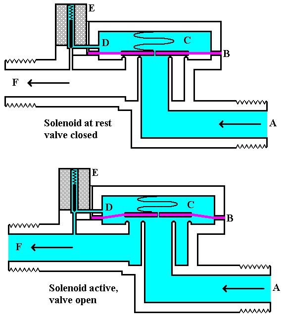 Cross-section of a solenoid valve